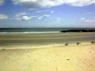 Photograph of Carne Beach, Wexford, Ireland I took this picture myself in 1998, before the Carnsore windfarm was built. This was the location of a series of free festivals in the late 1970s. Copyright (c) User:Alison.